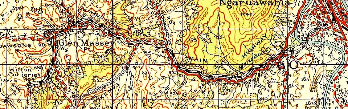 This work is based on/includes LINZ’s data which are licensed by Land Information New Zealand (LINZ) for re-use under the Creative Commons Attribution 3.0 New Zealand licence.